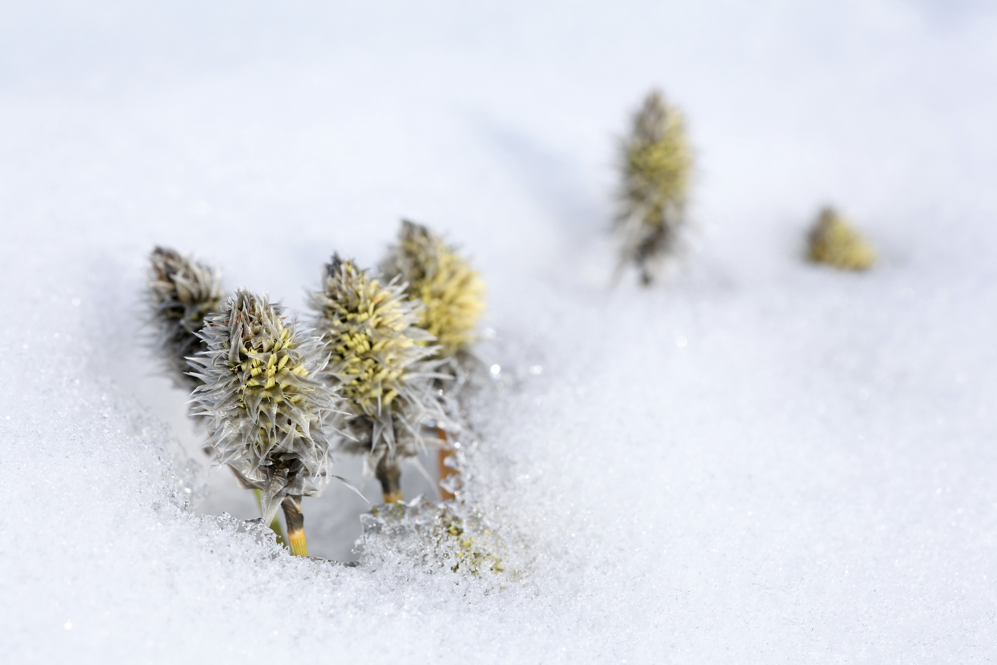 Flowering hare's-tail cottongrass in Albu Parish, Estonia